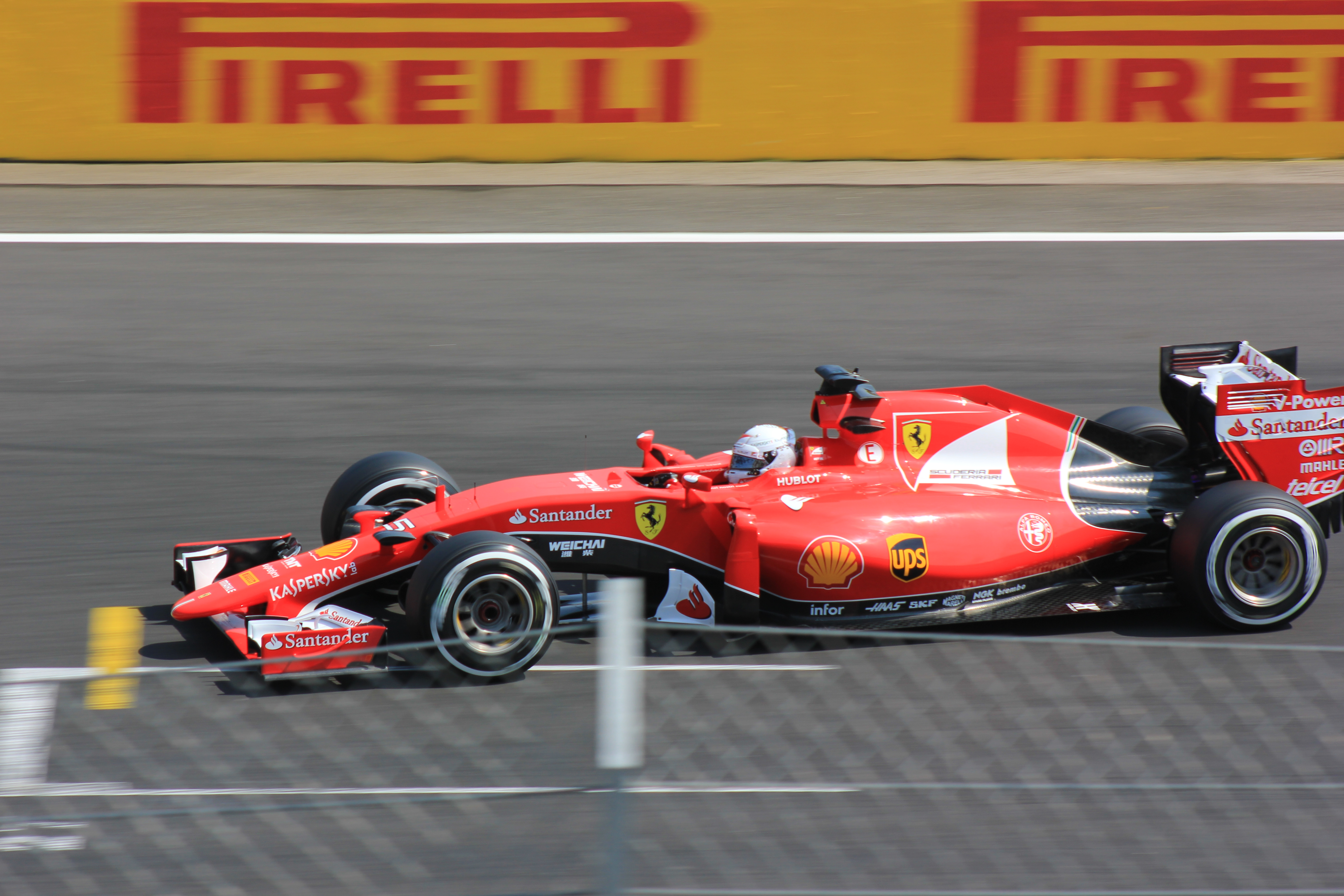 Sebastian Vettel at the 2015 Hungarian Grand Prix